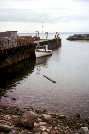 The bay of Fundy at high tide, 1972. As I recall, this was in New Brunswick, not far from the Fundy National Park.